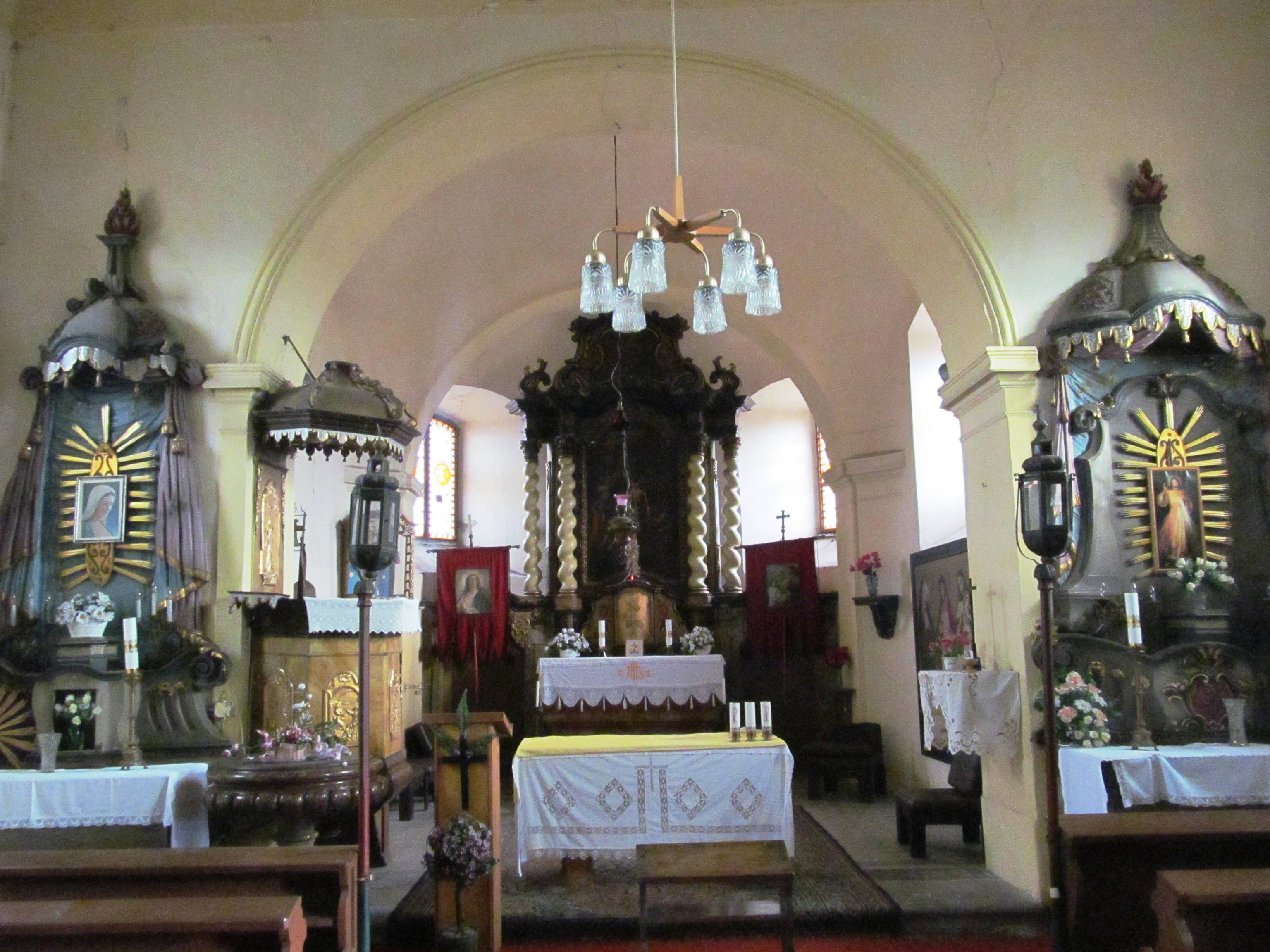 Interior of the Church of Saint Bartholomew in Holedeček